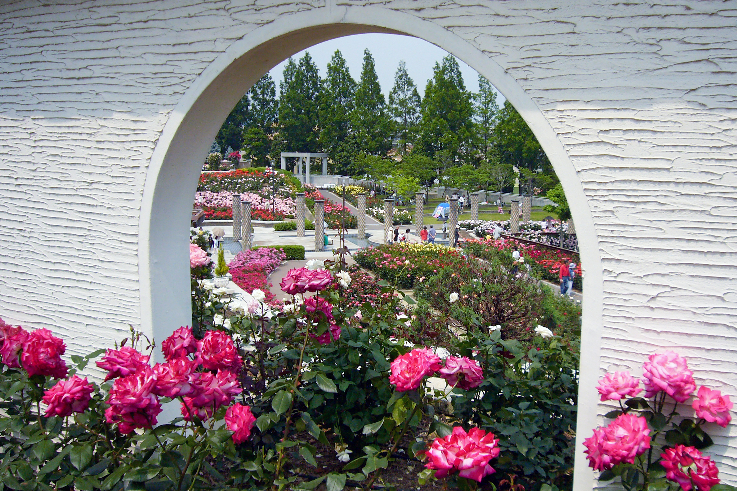 Aramaki rose park in Itami, Hyogo prefecture, Japan